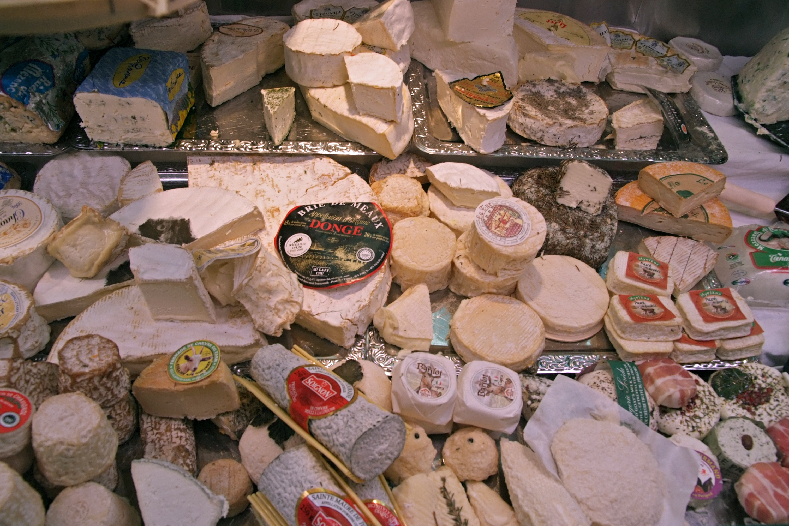 Different soft cheeses